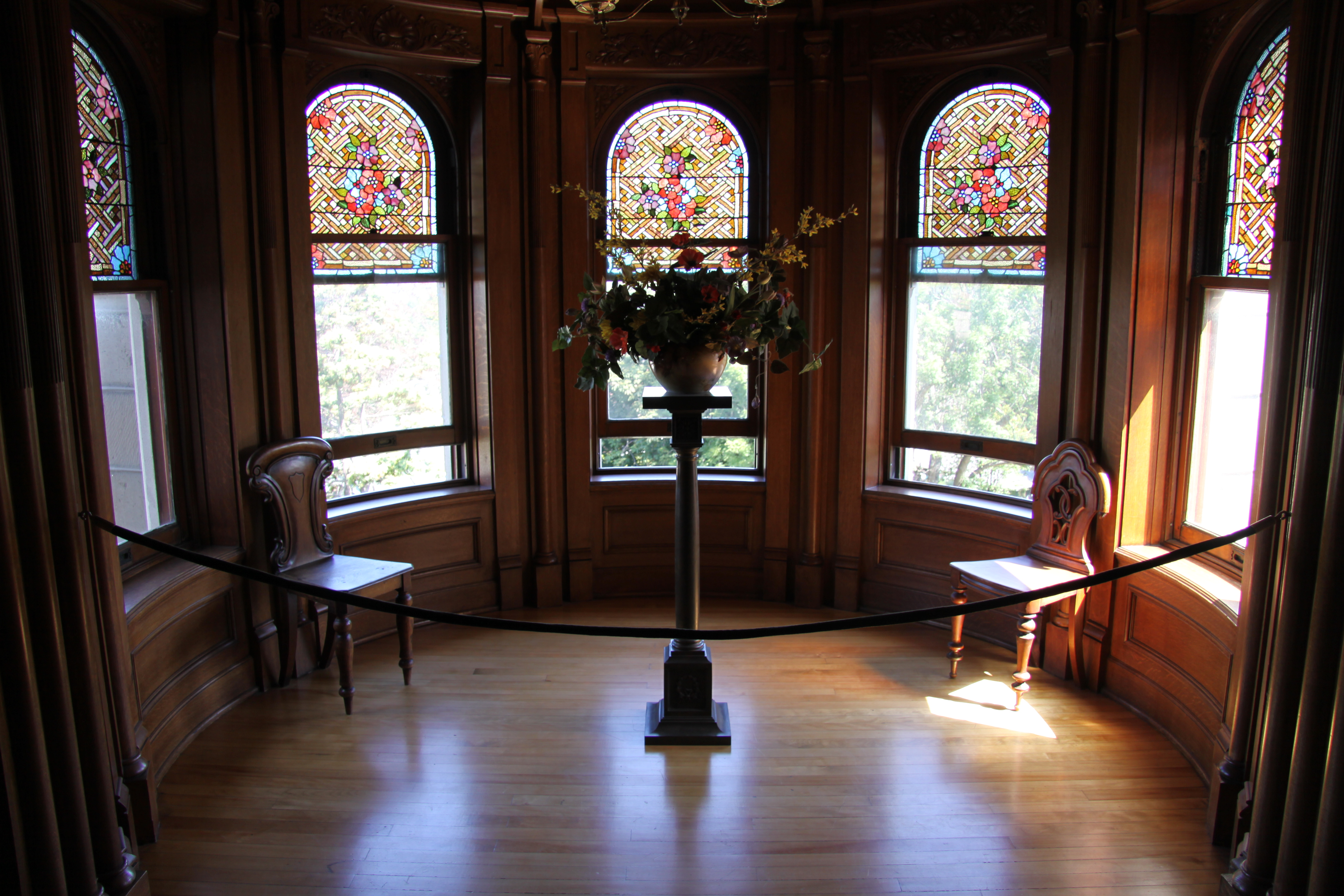 Craigdarroch Castle in Victoria, British Columbia, Canada